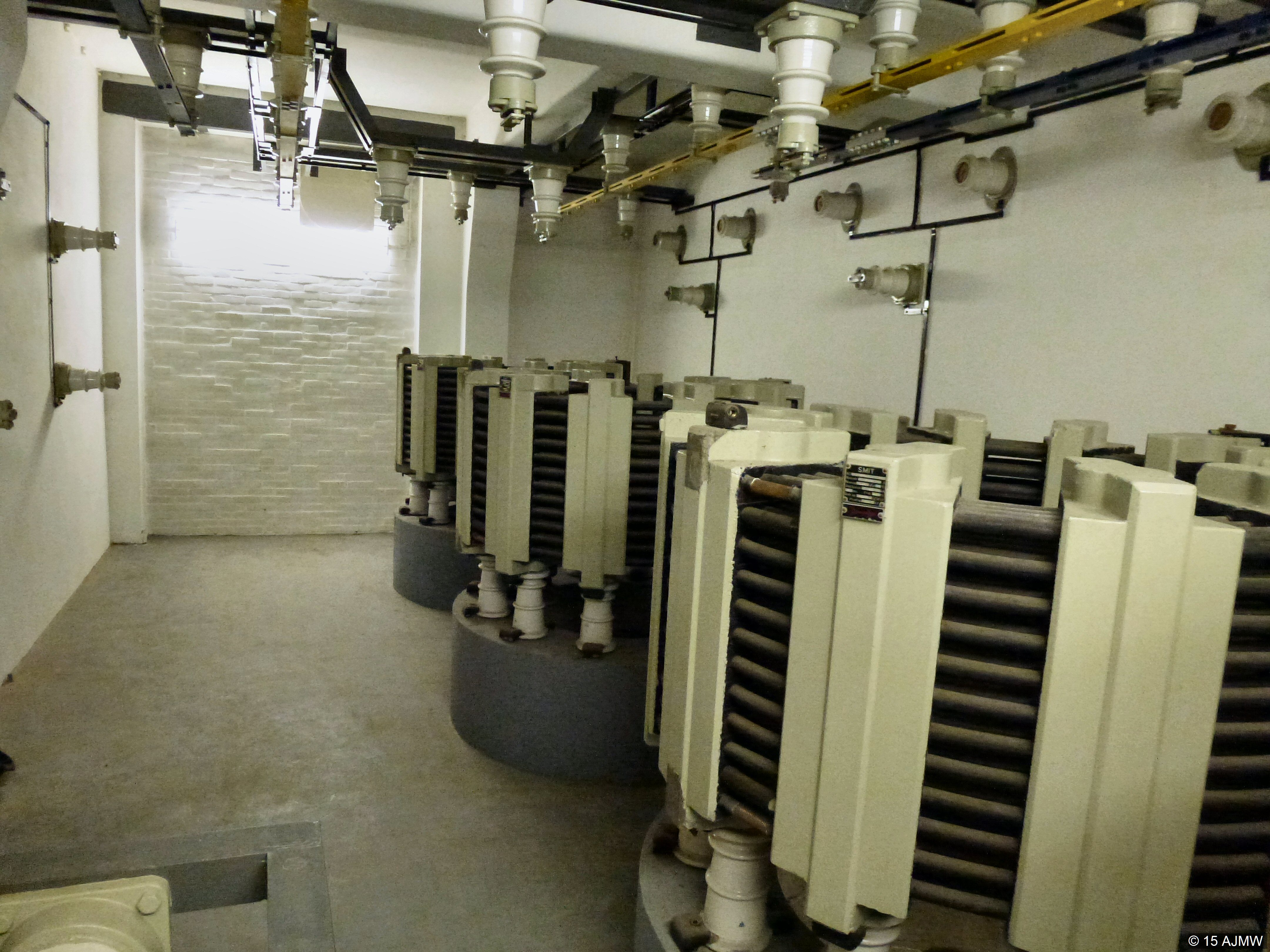 Choke coil room with 3 coils (1 per phase) in a decommissioned substation (power station?) in Leiden, the Netherlands.